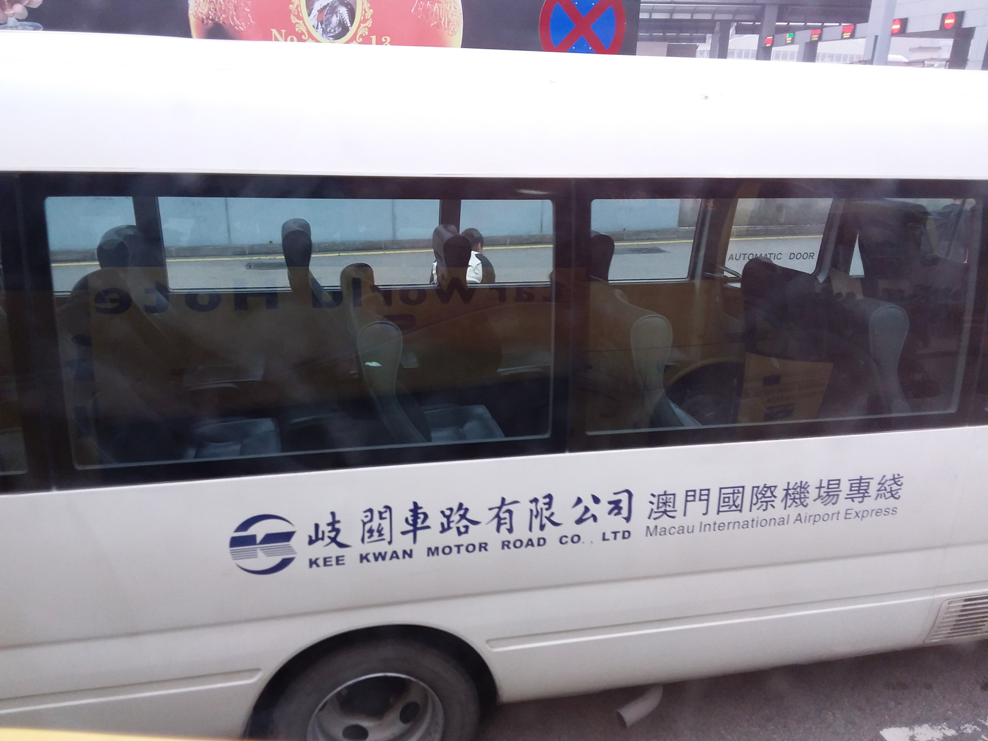 MC 澳門 Macau shuttle bus from StarWorld Casino to 關閘廣場 Praça das Portas do Cerco border gate square January 2019 SSG